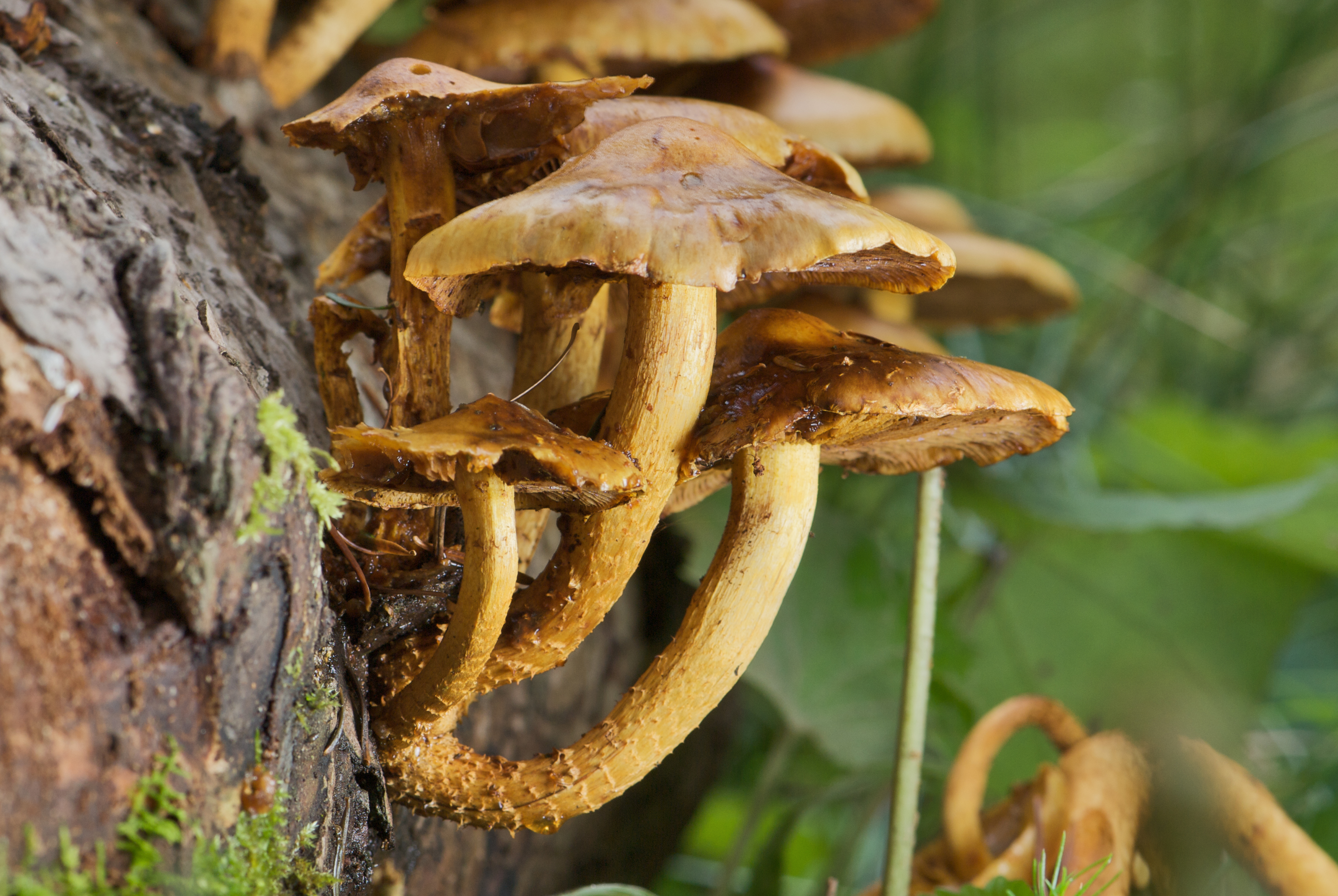 Pholiota spumosa is a fungus of the genus Pholiota. The sporocarps in the picture are at the end of their life cycle and therefore darker colored. Especially the hymenium which initially is yellow turned brown.